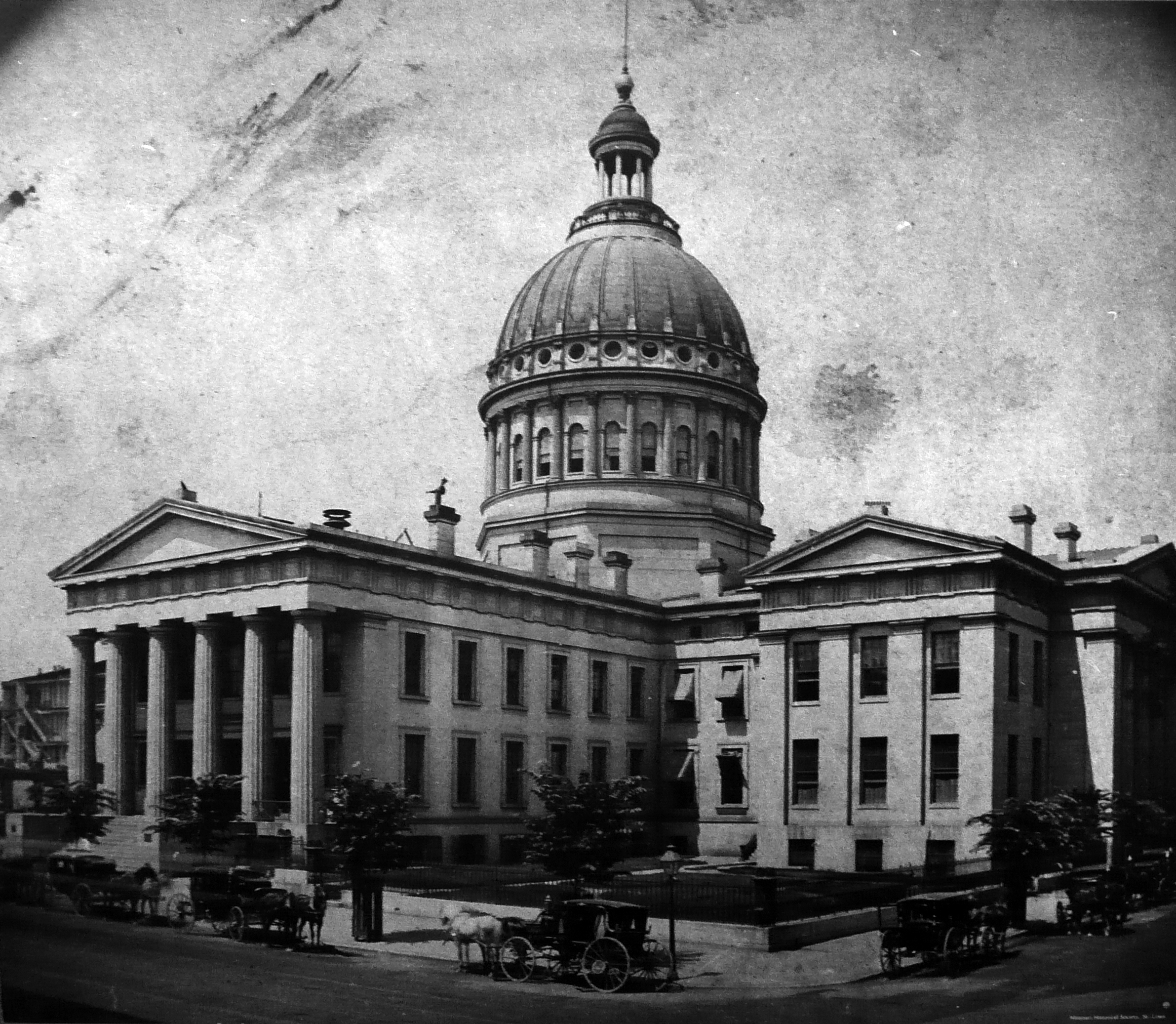 Auguste Chouteau and John Lucas donated land to St. Louis County for a courthouse in 1816. The original courthouse was constructed of brick in the Federal style of architecture and completed in 1828. A second courthouse was designed by architect Henry Singleton, which incorporated the original courthouse as the east wing of the building. The second courthouse was designed with four wings and a dome in the center of its axis. The Old Courthouse underwent a second period of construction beginning in 1851. Due to the extensive remodeling, the original dome, a classic revival style, was replaced. The new dome was of wrought and cast iron with a copper exterior in an Italian Renaissance style, and was designed by William Rumbold. Carl Wimar was commissioned to paint the murals on the interior of the dome. The Old Courthouse was abandoned by the City of St. Louis in 1930. In 1935, St Louis voted a bond issue to raze nearly 40 blocks around the courthouse in the center of St. Louis for the new Jefferson National Expansion Memorial. The courthouse was deeded to the Federal Government in 1940 by the city of St. Louis. In 1846, slave Dred Scott sued for his freedom in the St Louis County Courthouse based on the fact that he and his wife had lived in the free state of Illinois and the free territory of Wisconsin. The case was ultimately decided by the U.S. Supreme Court in the 1856 case Dred Scott v. Sandford which ruled against Scott. The decision In effect, ruled that slaves had no claim to freedom; they were property and not citizens; and they could not bring suit in federal court. The Jefferson National Expansion Memorial (including the Arch, Old Cathedral, and Old Courthouse) is on the National Register #87001423, and is also a National Historic Landmark.